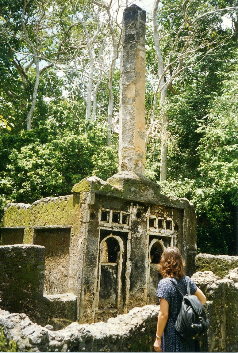 Gedi ruins in Eastafrica